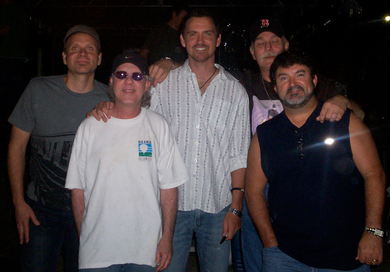 Country music band at the Iosco County Fair in Hale, Michigan. L-R: Mike Folsom, Stan Munsey, Jimmy Yeary, Jim Seales, Mike McGuire.